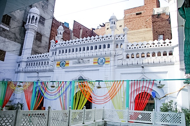 Neevin Masjid This is a photo of a monument in Pakistan identified as the PB-103-A